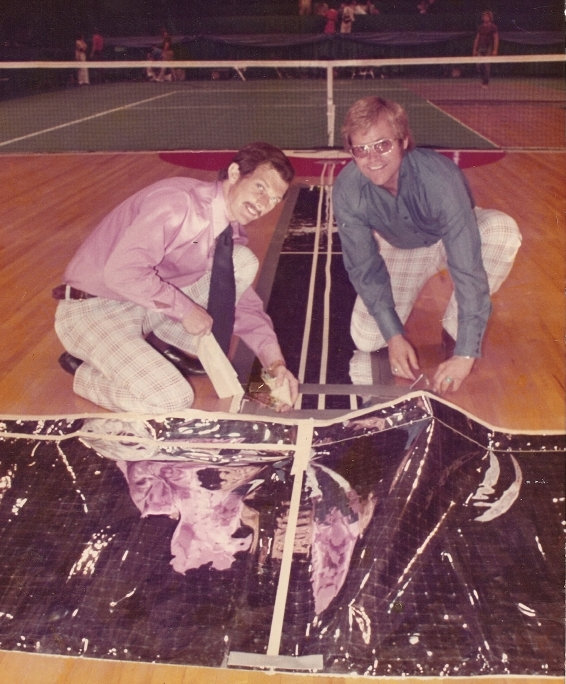 Photograph showing the Mylar sensors used by the Electroline computer